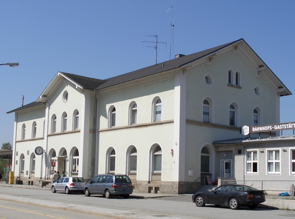 Deggendorf station, Bavaria, Germany, on the railway from Plattling-Bayerisch Eisenstein, aka the Bavarian Forest railway or Bayerische Waldbahn.